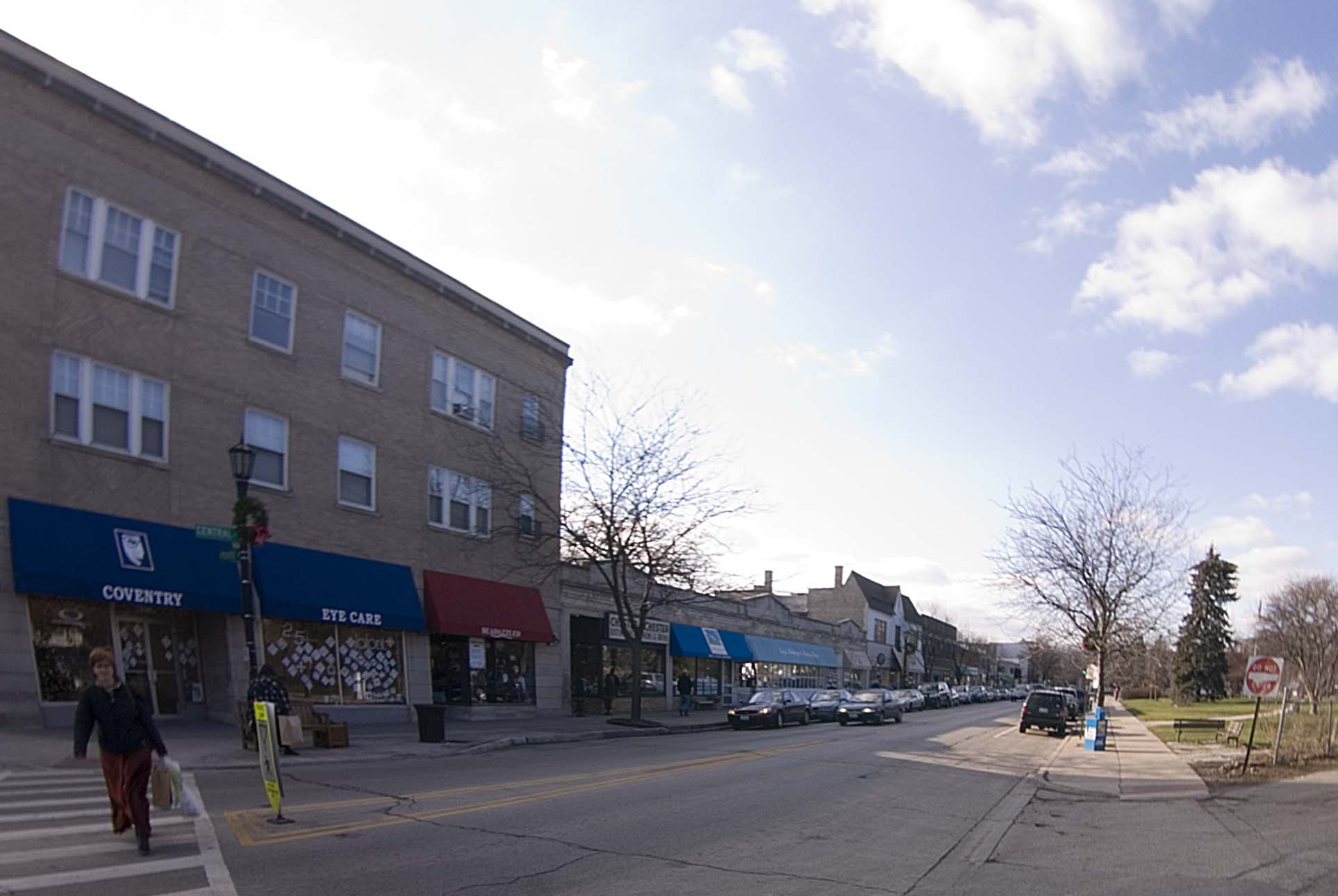 Central Street shopping district, Evanston, Illinois